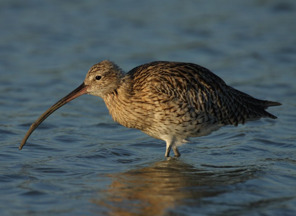 Eurasian curlew (Numenius arquata), Mekszikópuszta, Hungary